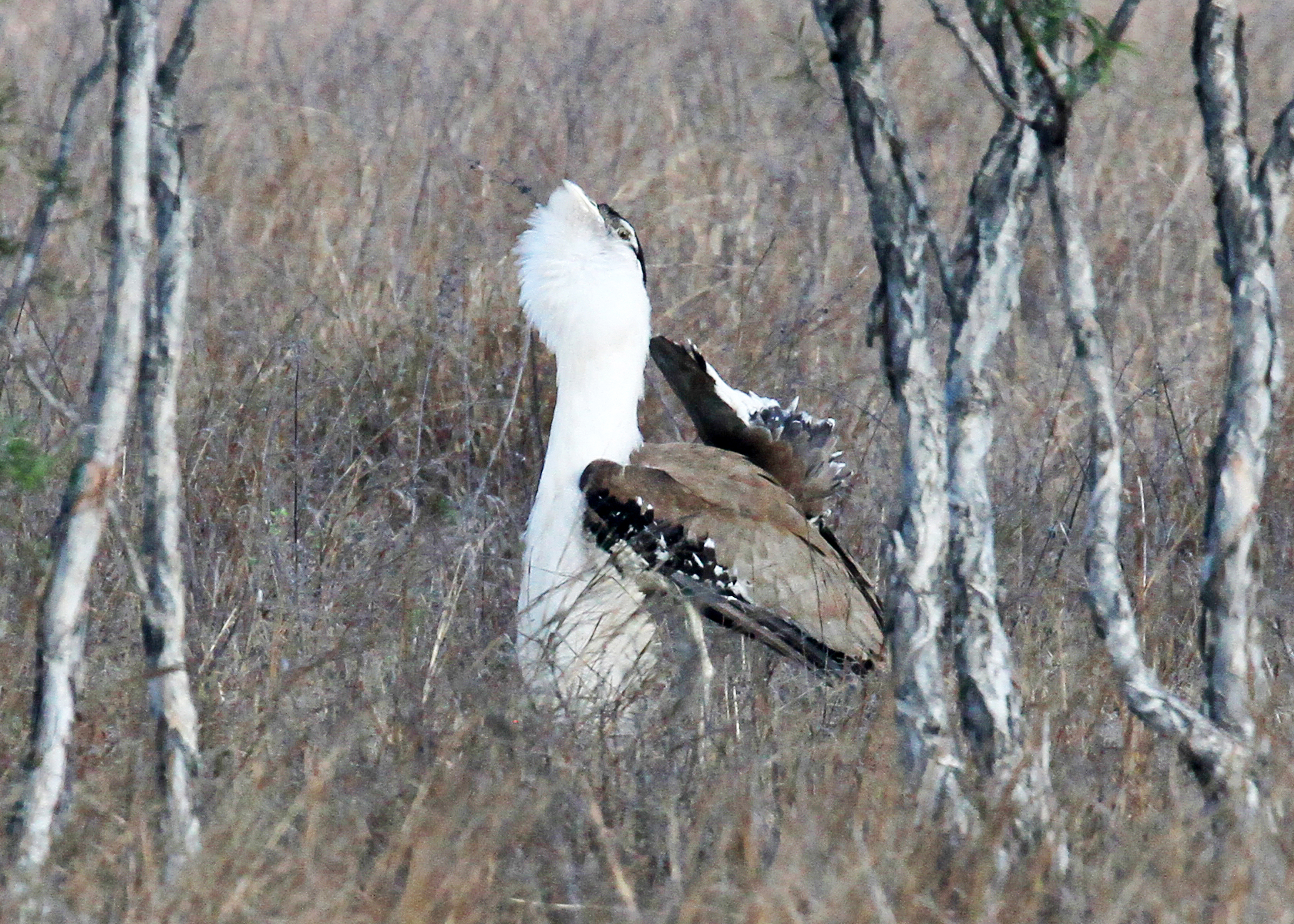 photo of Australian Bustard in mating display